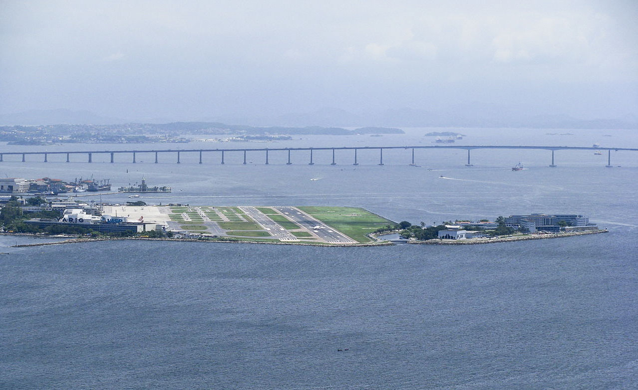 Picture from Santos Dumont Airport